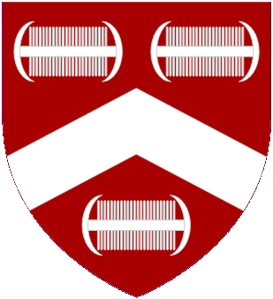 Shield of arms of The Lord Ponsonby of Shulbrede